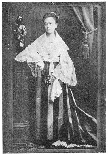 Photograph of Leonor Rivera, the childhood sweetheart of Philipino national hero José Rizal.